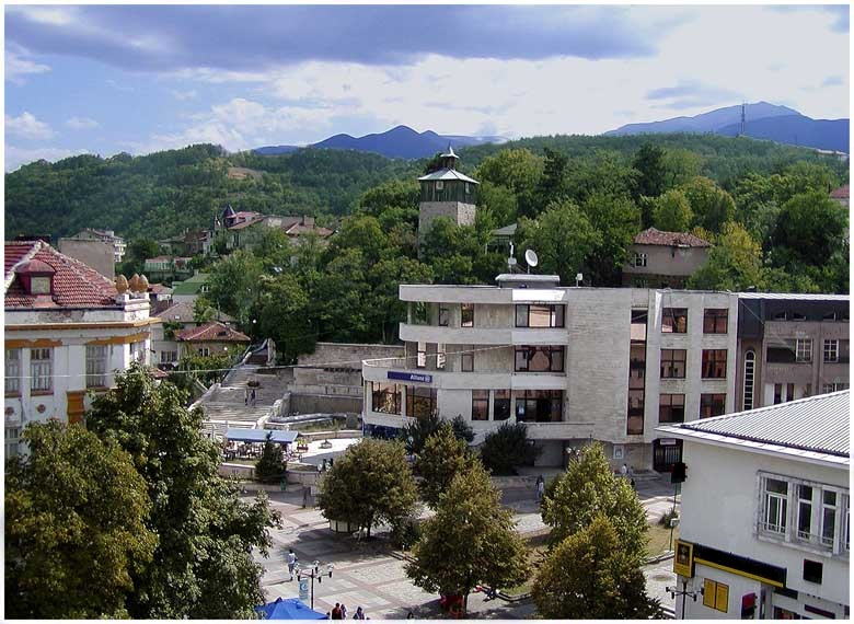 Изглед от Общината